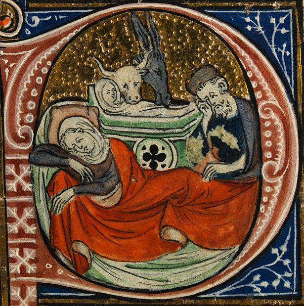 This beautiful Missal made from parchment originates from East Anglia. It is considered a very important manuscript as it is one of the earliest examples of a Missal of an English source. Sarum Missals were books produced by the Church during the Middle Ages for celebrating Mass throughout the year